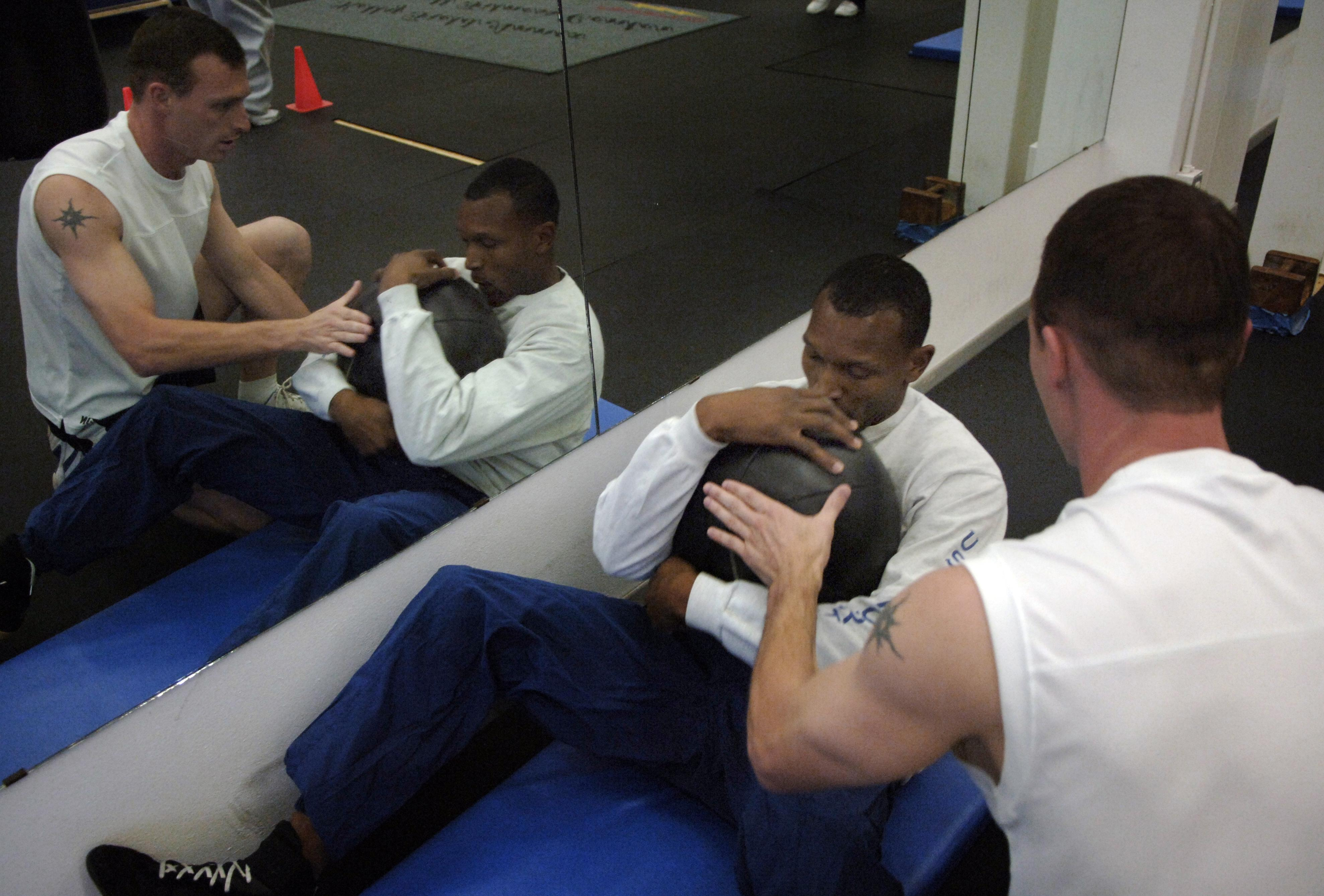 Calistenics with a gymnastics ball. Boxing it out: SAN ANTONIO (AFPN) -- Staff Sgt. Kelvin Leggett receives help from Staff Sgt. John House while performing core training at the Air Force Boxing Training Camp. Twenty-four Airmen our trying out for the nine spots to represent the Air Force at the Armed Forces Tournament. Sergeant Leggett is assigned to the Headquarters Southern Command and Sergeant House is at Lackland Air Force Base, Texas.